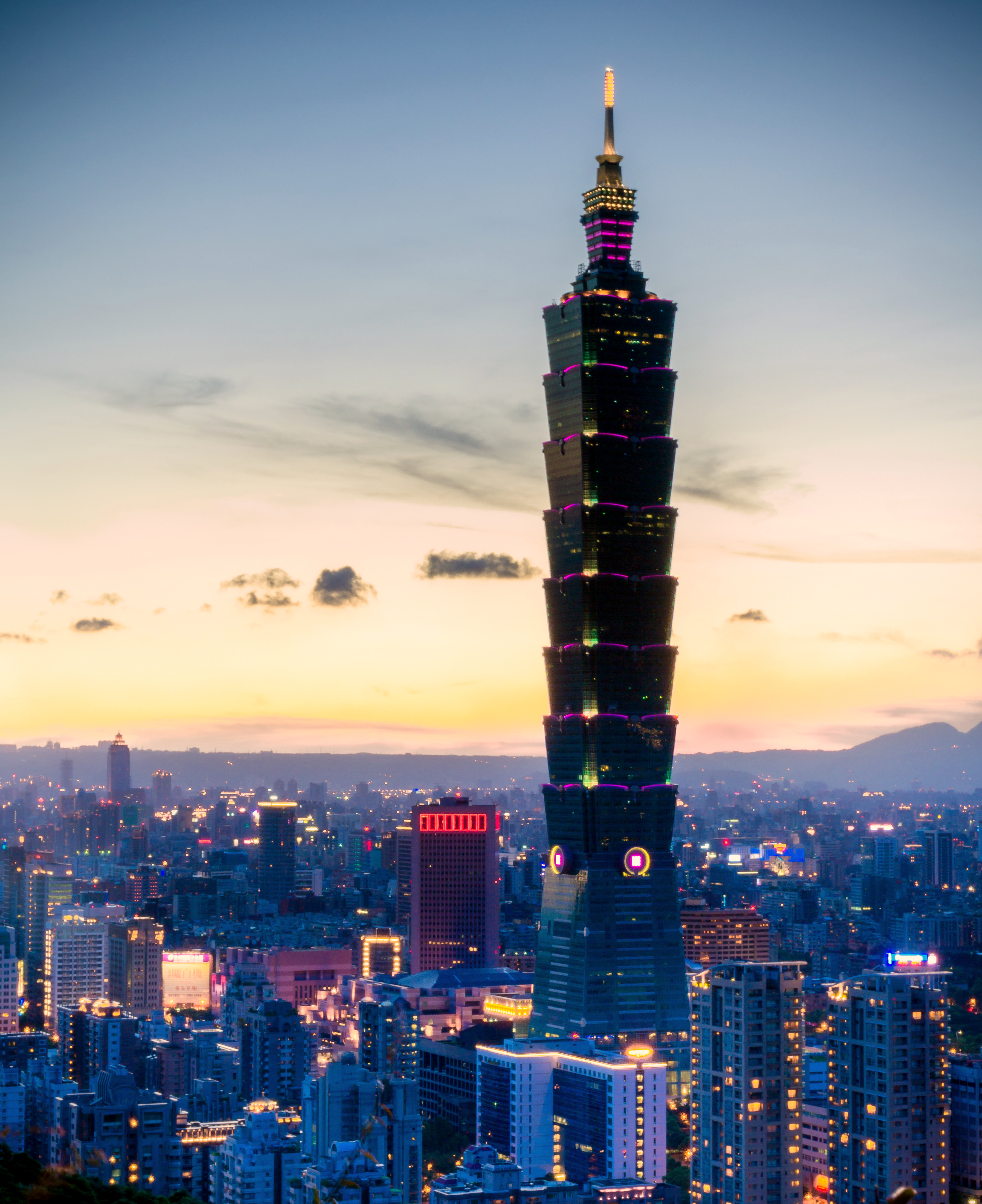 Taipei 101